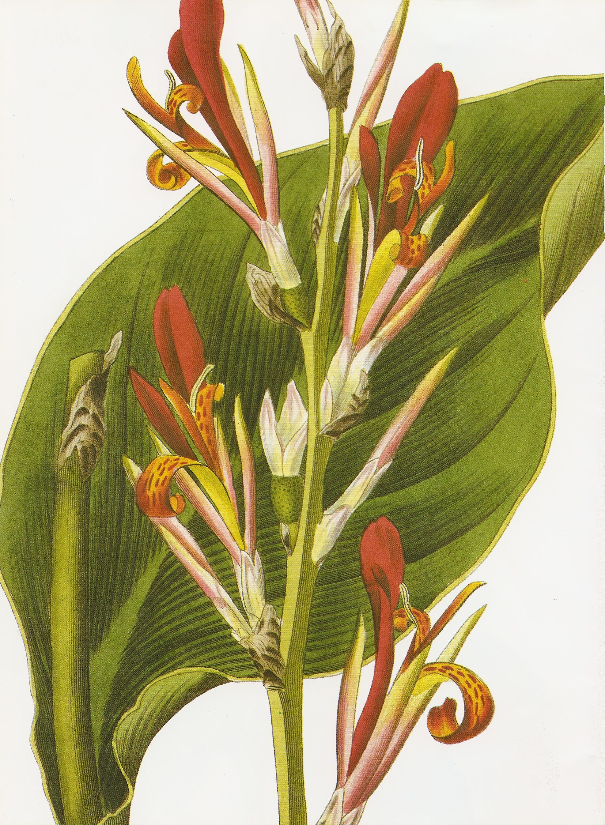 Canna indica, as Canna coccinea, a hand-coloured engraving by M. Hart, from the 15th volume of the Botanical Register (1829), the first volume to be edited by John Lindley